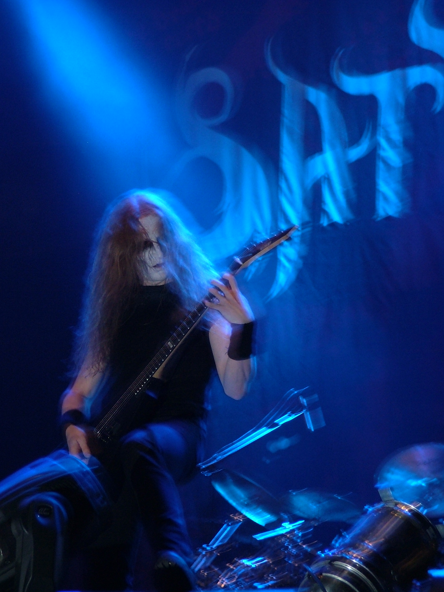 Norwegian black metal band Satyricon at the Metalcamp in Tolmin